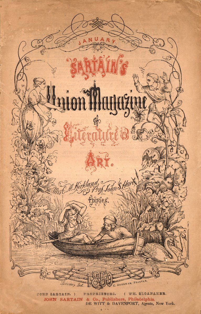 The cover of the January, 1850 Sartain's Union Magazine, Philadelphia, which contained the first publication of Edgar Allan Poe's poem "Annabel Lee".